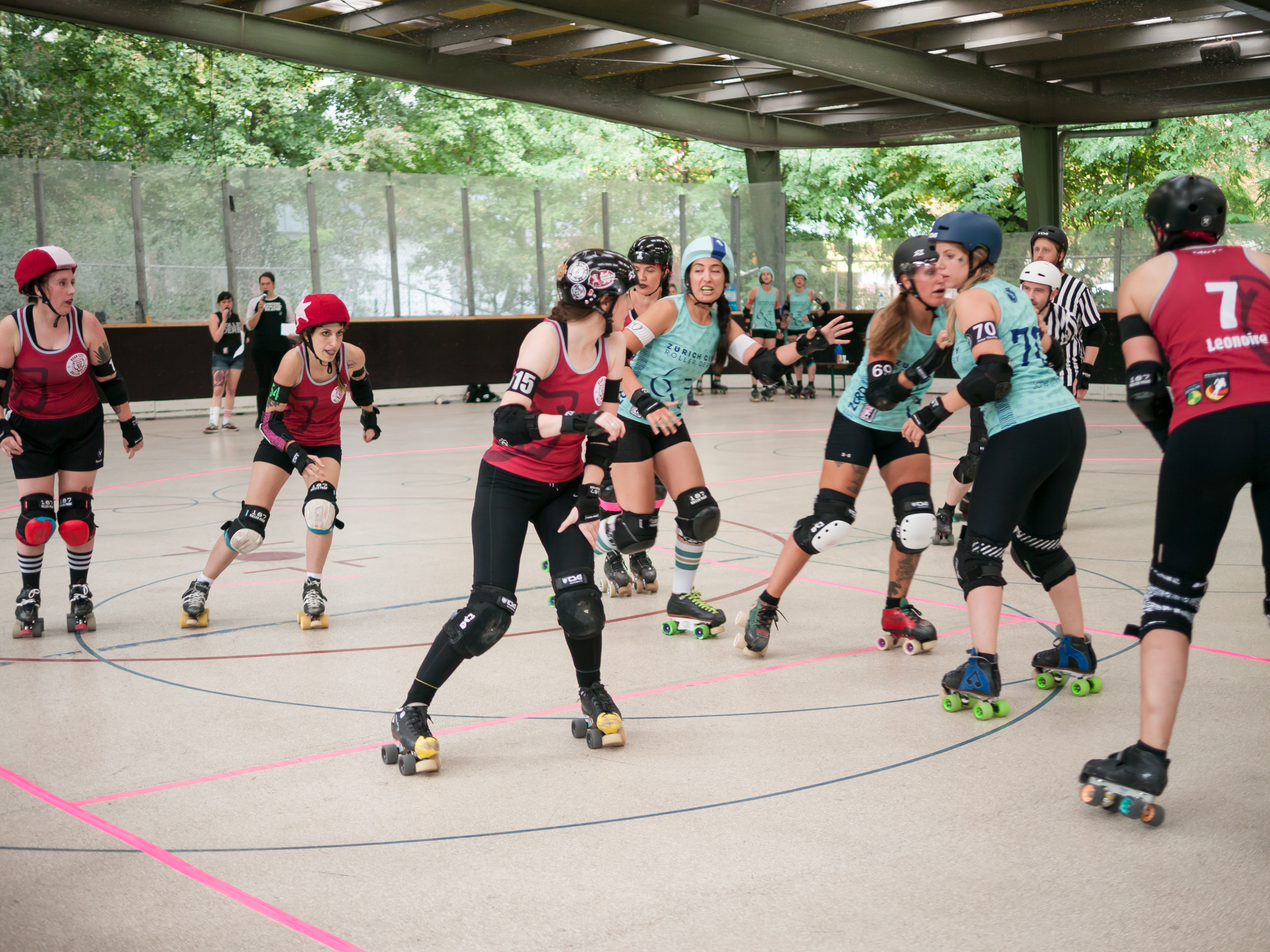 Roller derby Zurich v. Berlin, Sept 2018 at Rollsportanlage Fritz-Schloß-Park